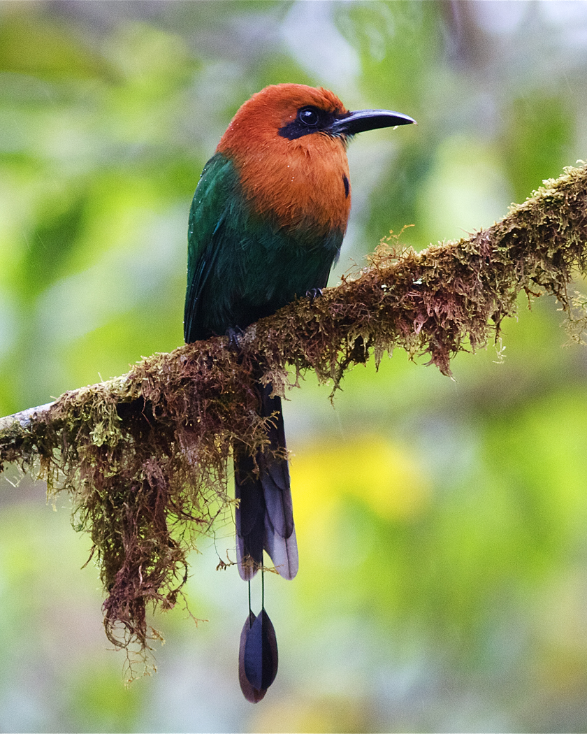 Broad-billed Motmot photo taken at Milpe Bird Sanctuary, (northwest) Ecuador